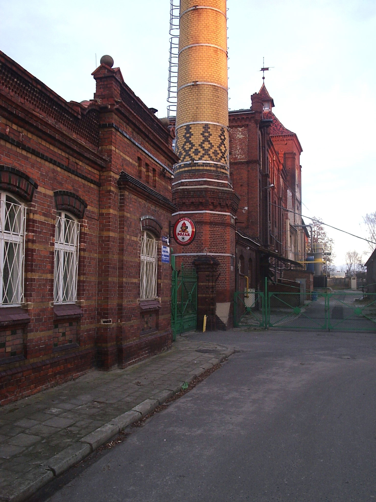 Brewery in Bojanowo, Poland